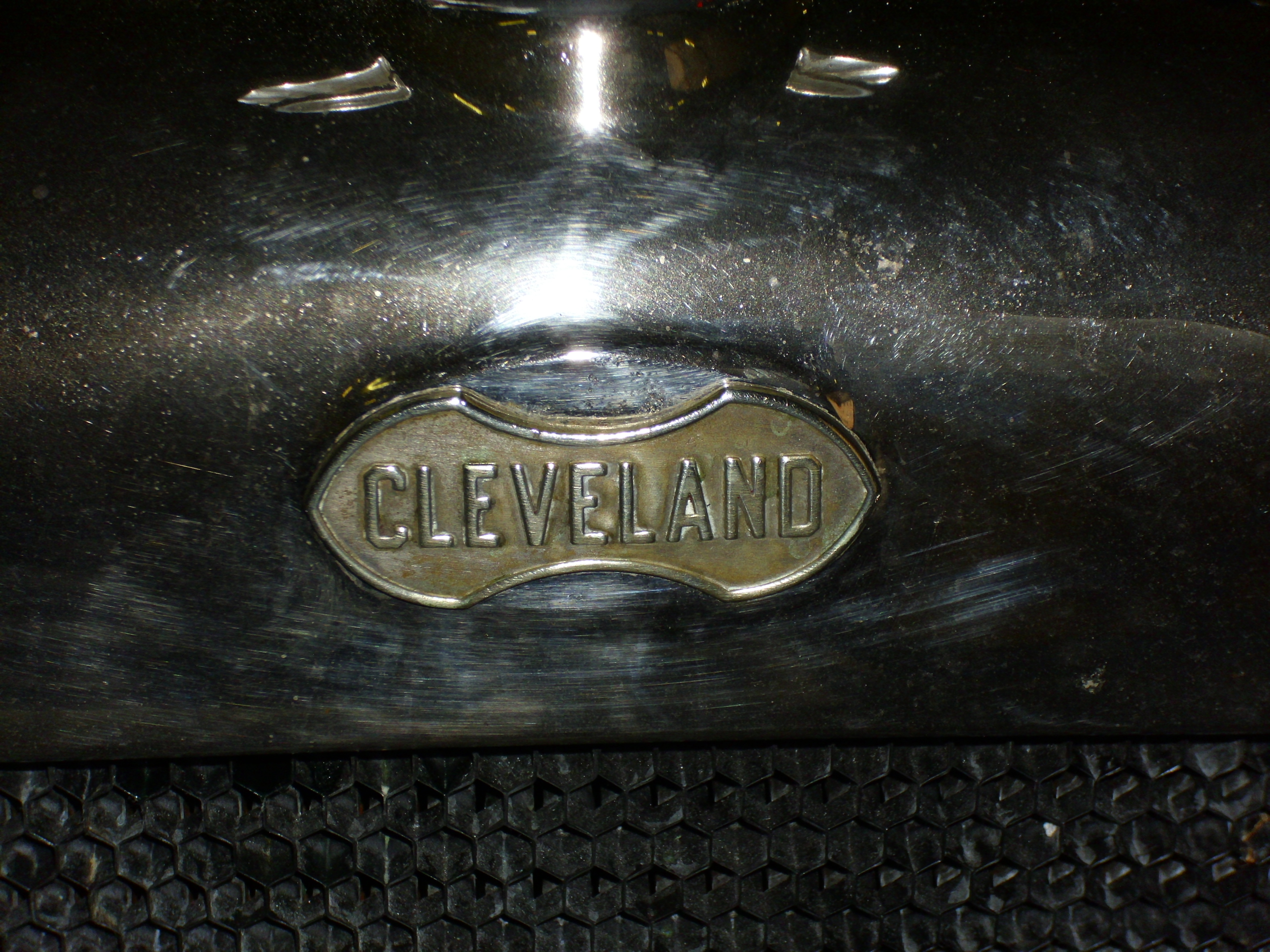 Emblem Cleveland